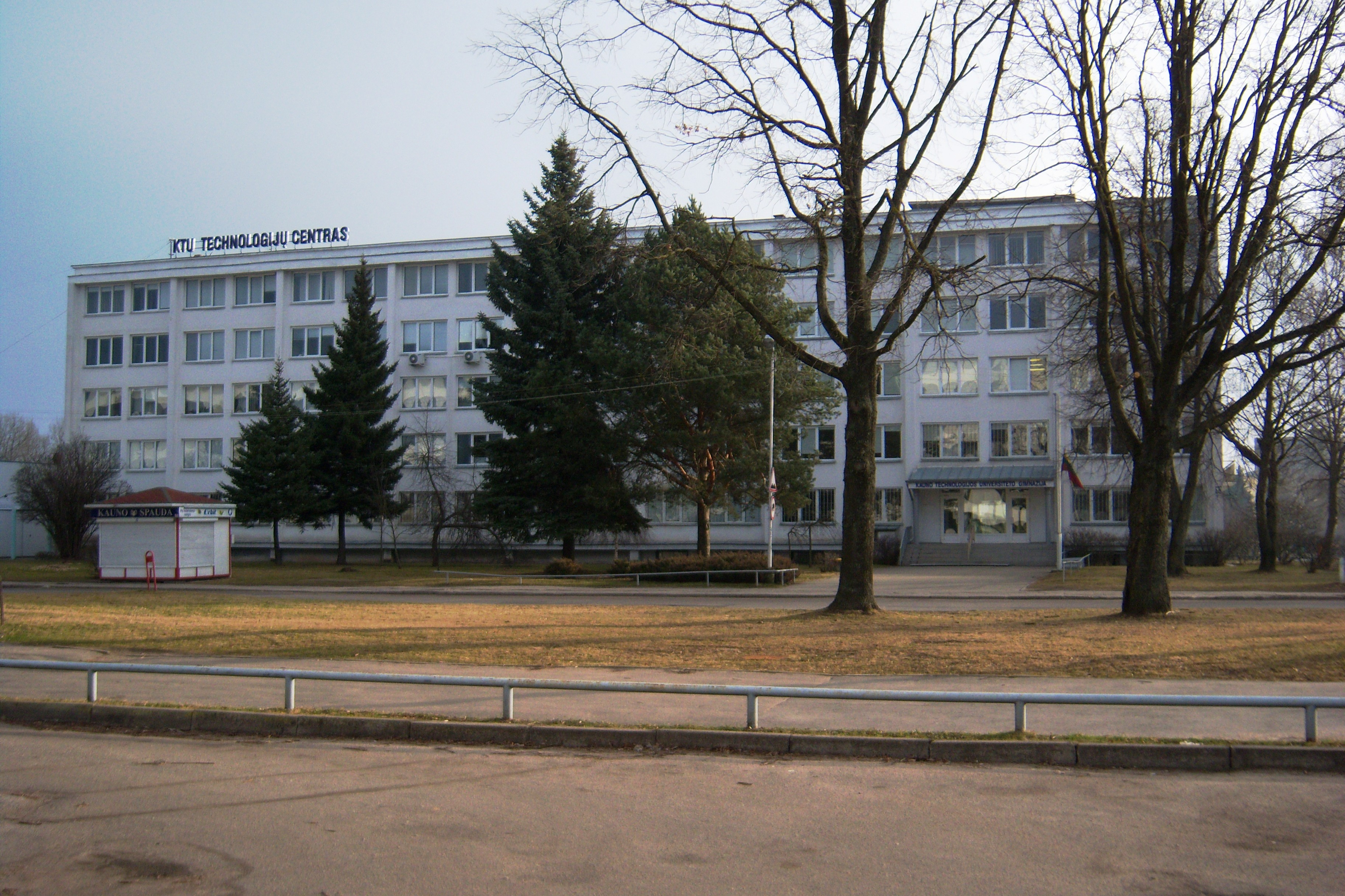 Gymnasium of Kaunas University of Technology, Lithuania